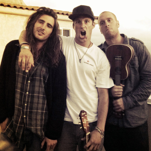 Radical Something Rooftop Image